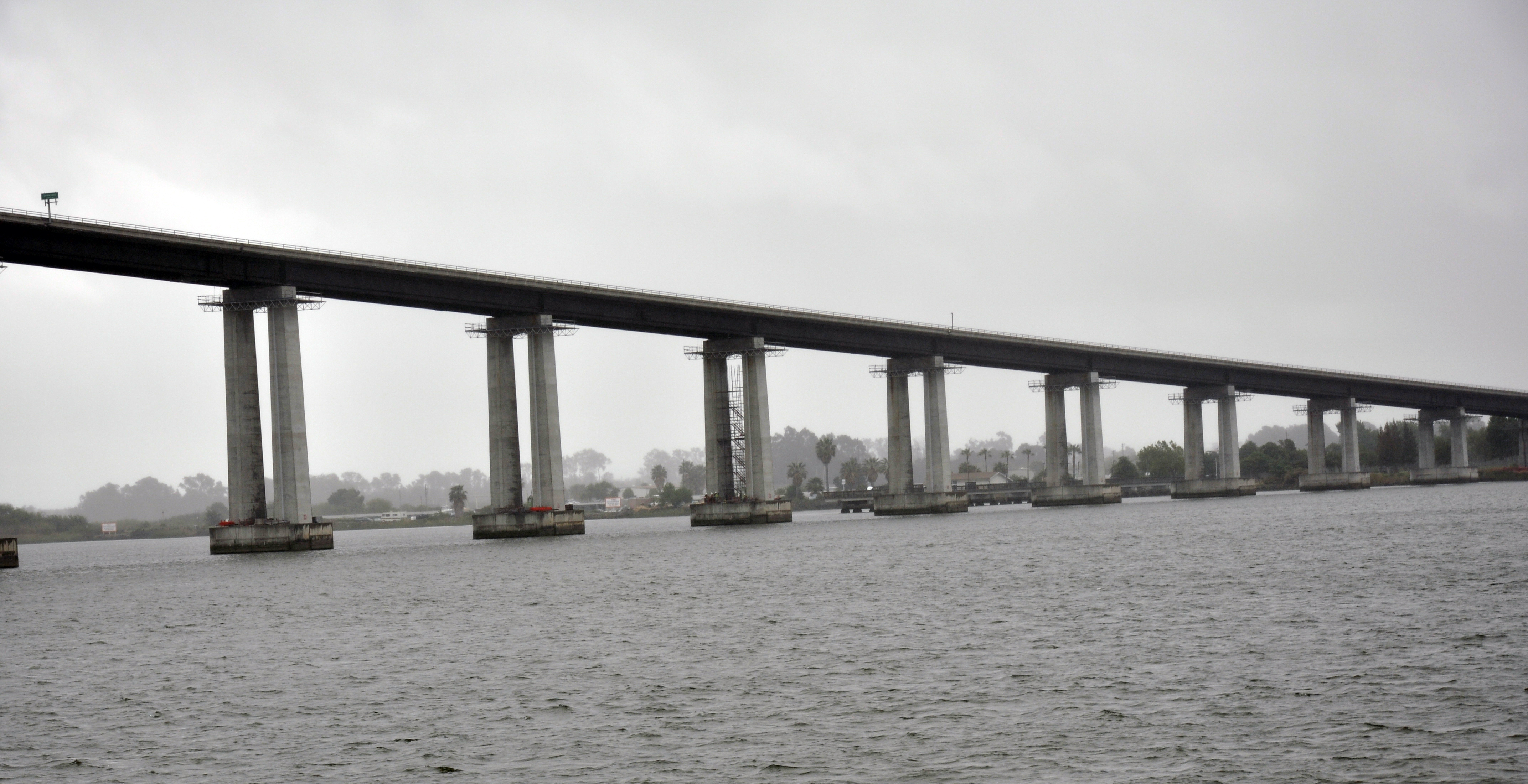 Antioch Bridge, California